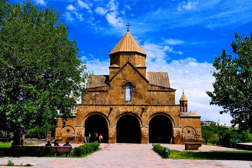 St. Gayane Church, Armenia.